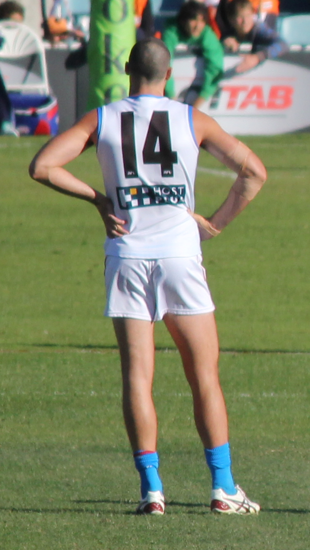 2012 Round 7. GWS Giants vs Gold Coast Suns. Manuka Oval.